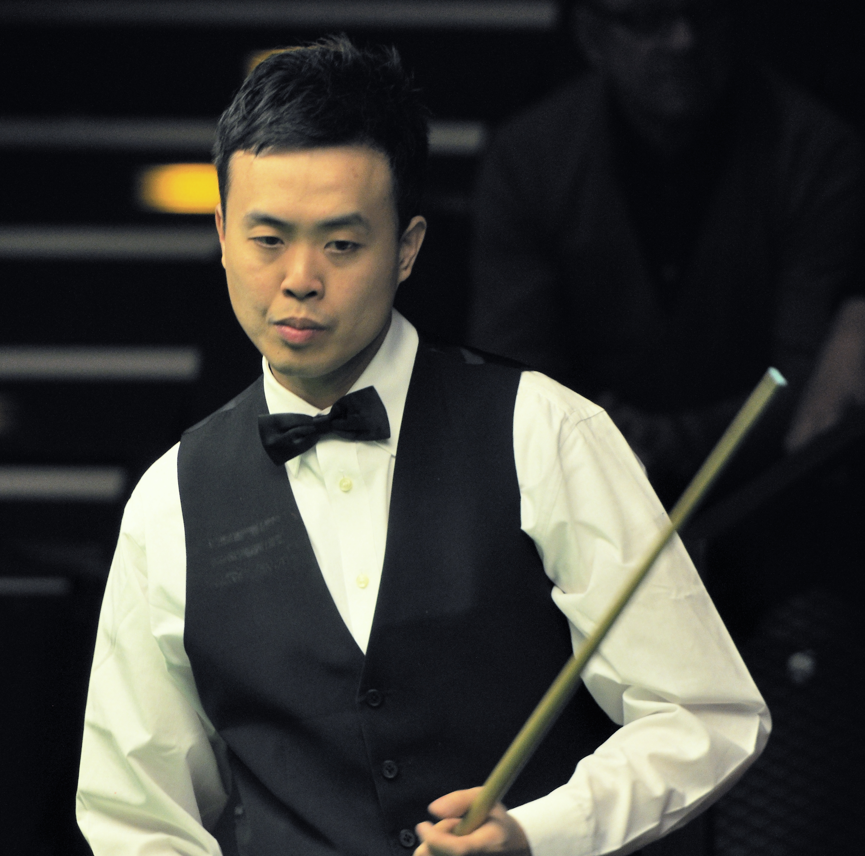 Picture taken in Berlin during the Snooker German Masters in 2014. Marco Fu.